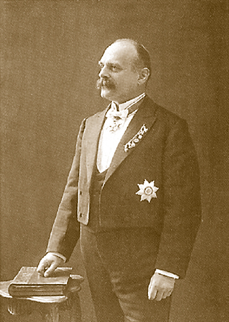 Theobald Ritter von Fuchs (1852-1943), mayor of Bad Kissingen (1883-1917), politician of Bavaria, Germany